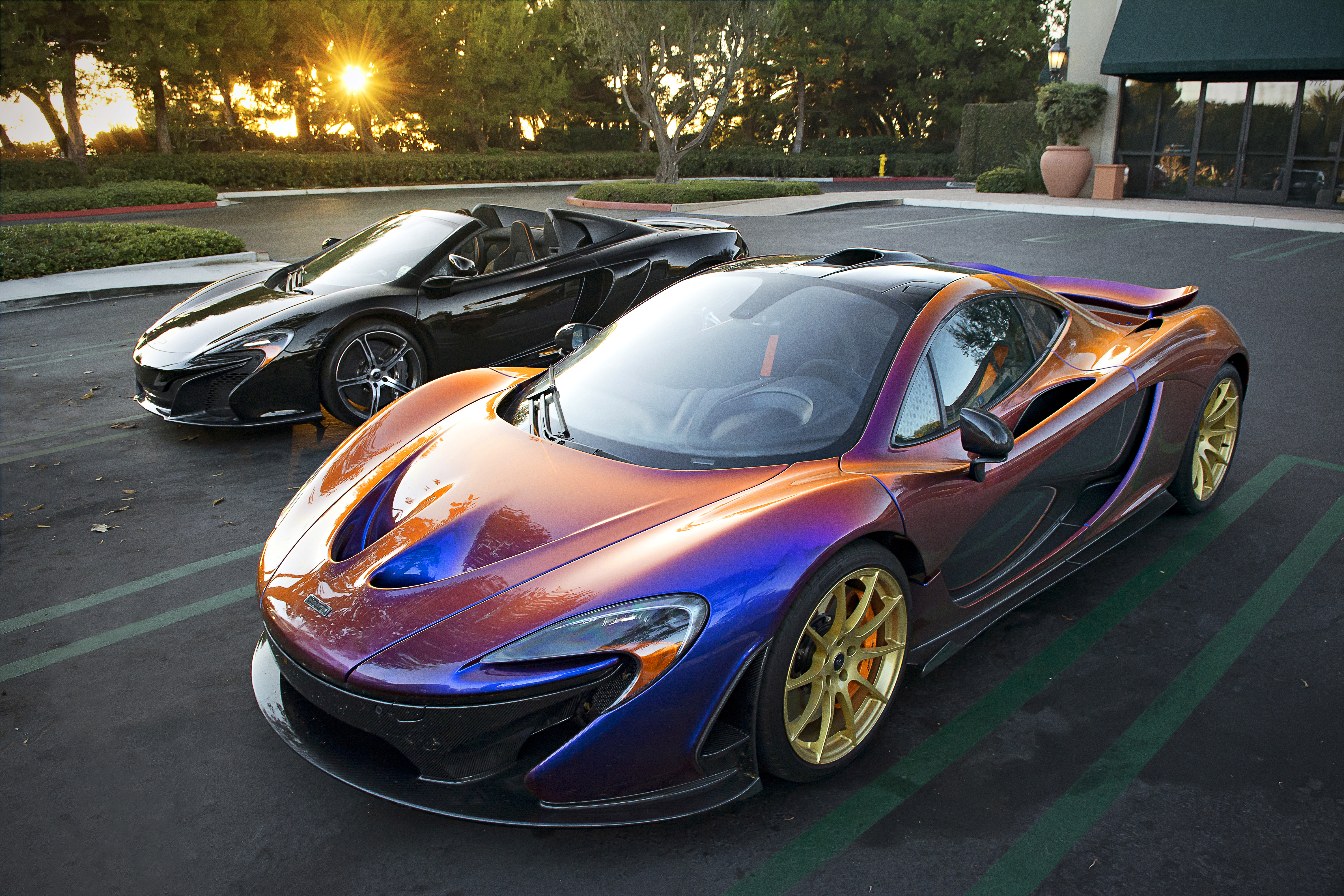 Chameleon McLaren P1 belonging to Los Angeles Angels pitcher CJ Wilson. I had no clue this ride existed and was completely stunned to see it on the road. This is probably the wildest supercar I've seen and I absolutely love it! (cc) Creative Commons Personal and Commercial with Attribution. If you use this photo make sure you source with a link back to my site at